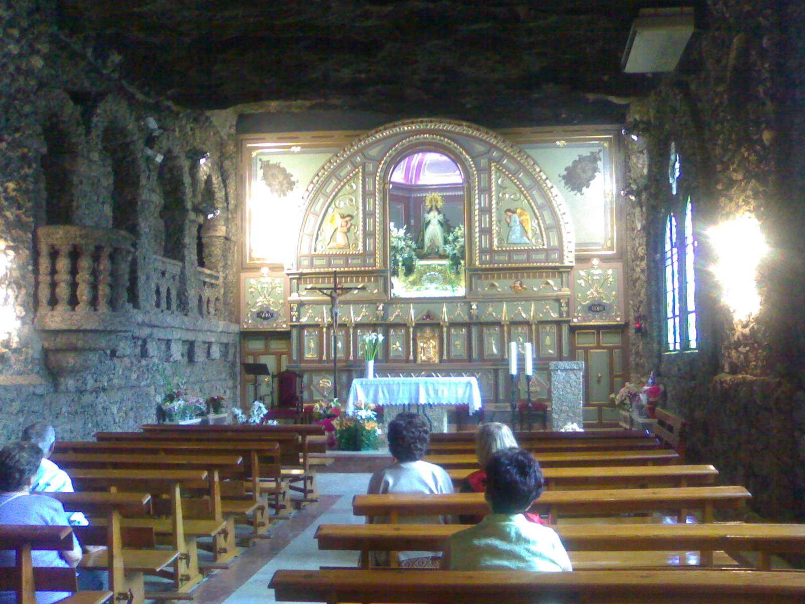 Calasparra, Murcia